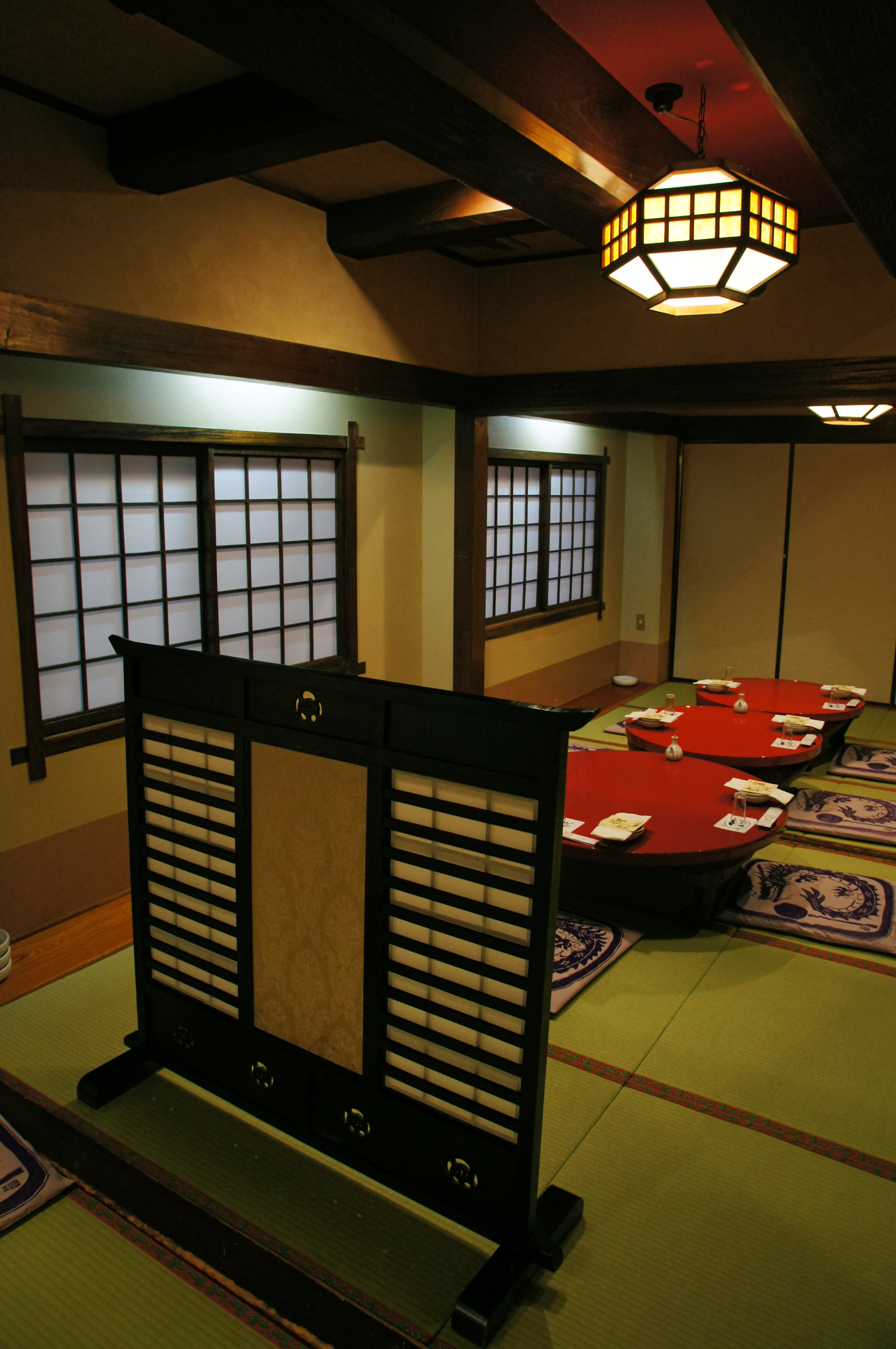 Nagasaki Shippoku Hamakatsu in Nagasaki, Nagasaki prefecture, Japan